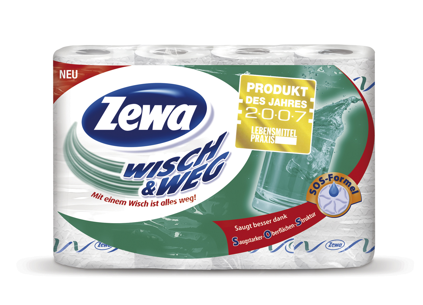 Zewa, SCA’s brand of toilet paper and household towels, is celebrating 50 years on the German market. The brand name originates from the initial manufacturer’s name “ZEllstoffabrik WAldhof” in Mannheim where the Zewa range is still produced by SCA.